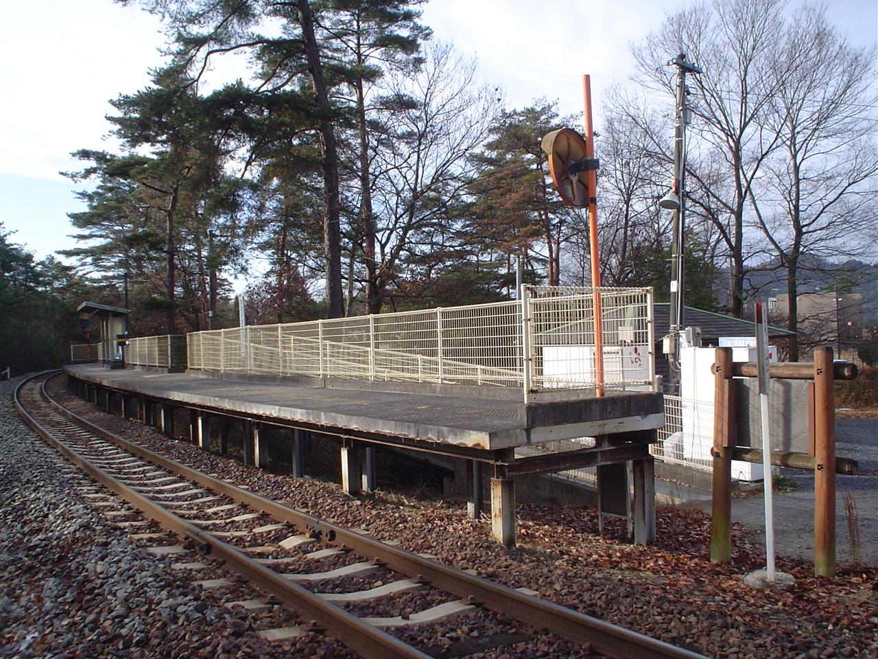 Shigaraki gushishi Station in Siga pref, Japan